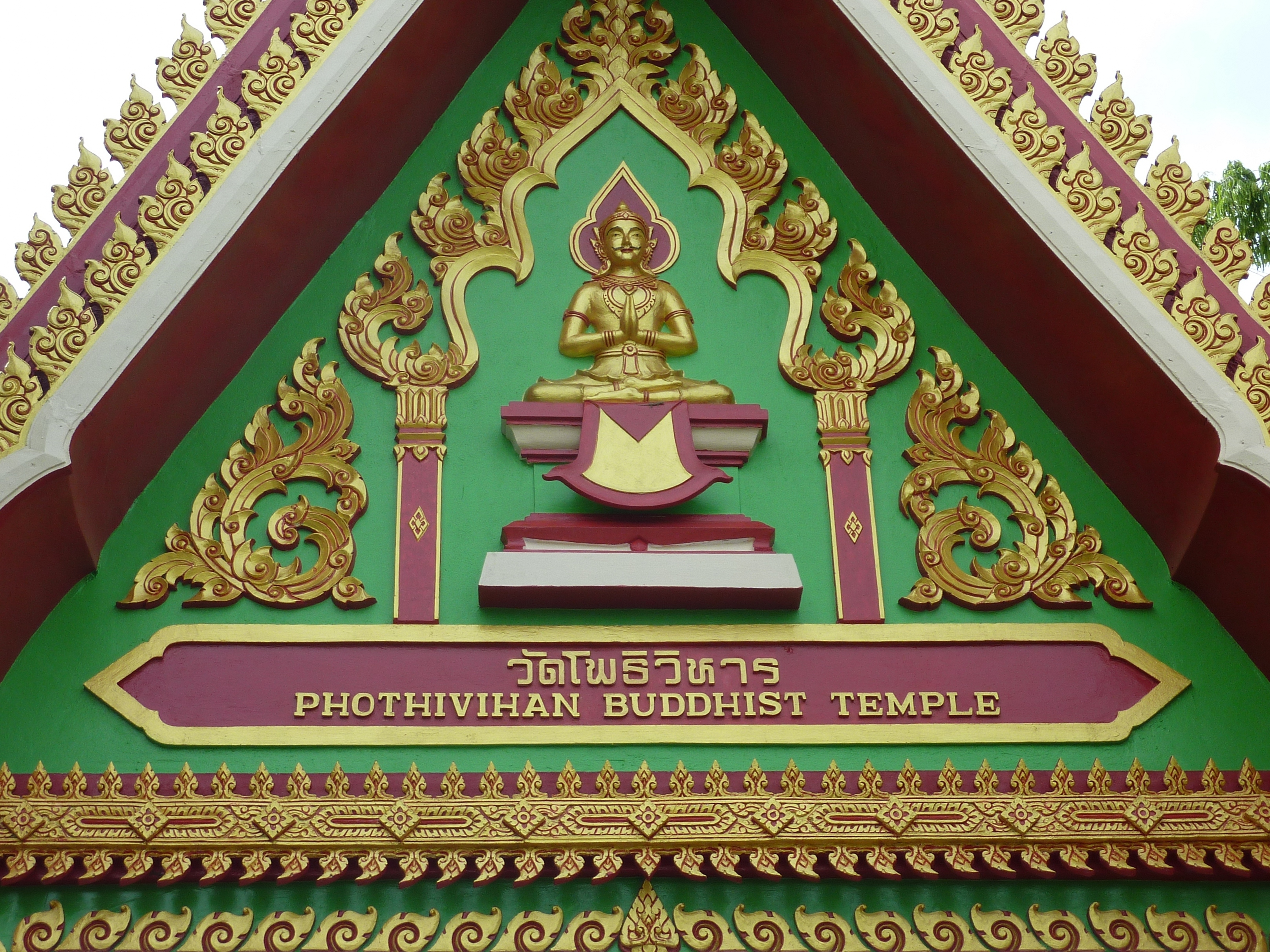 01 Gateway Signboard, at Wat Phothivihan, Tumpat, Kelantan